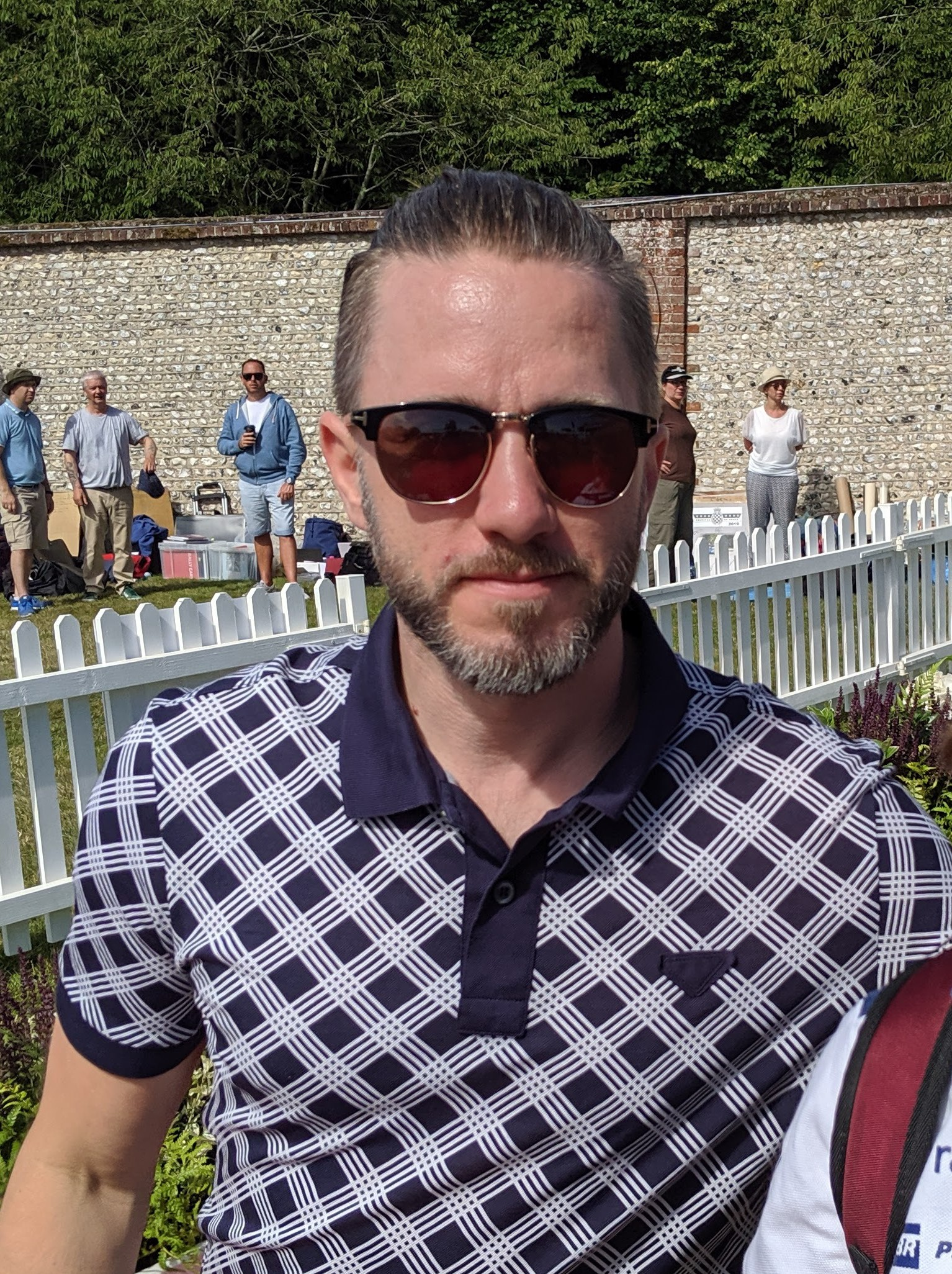 Nick Heidfeld Goodwood Festival of Speed 2019.